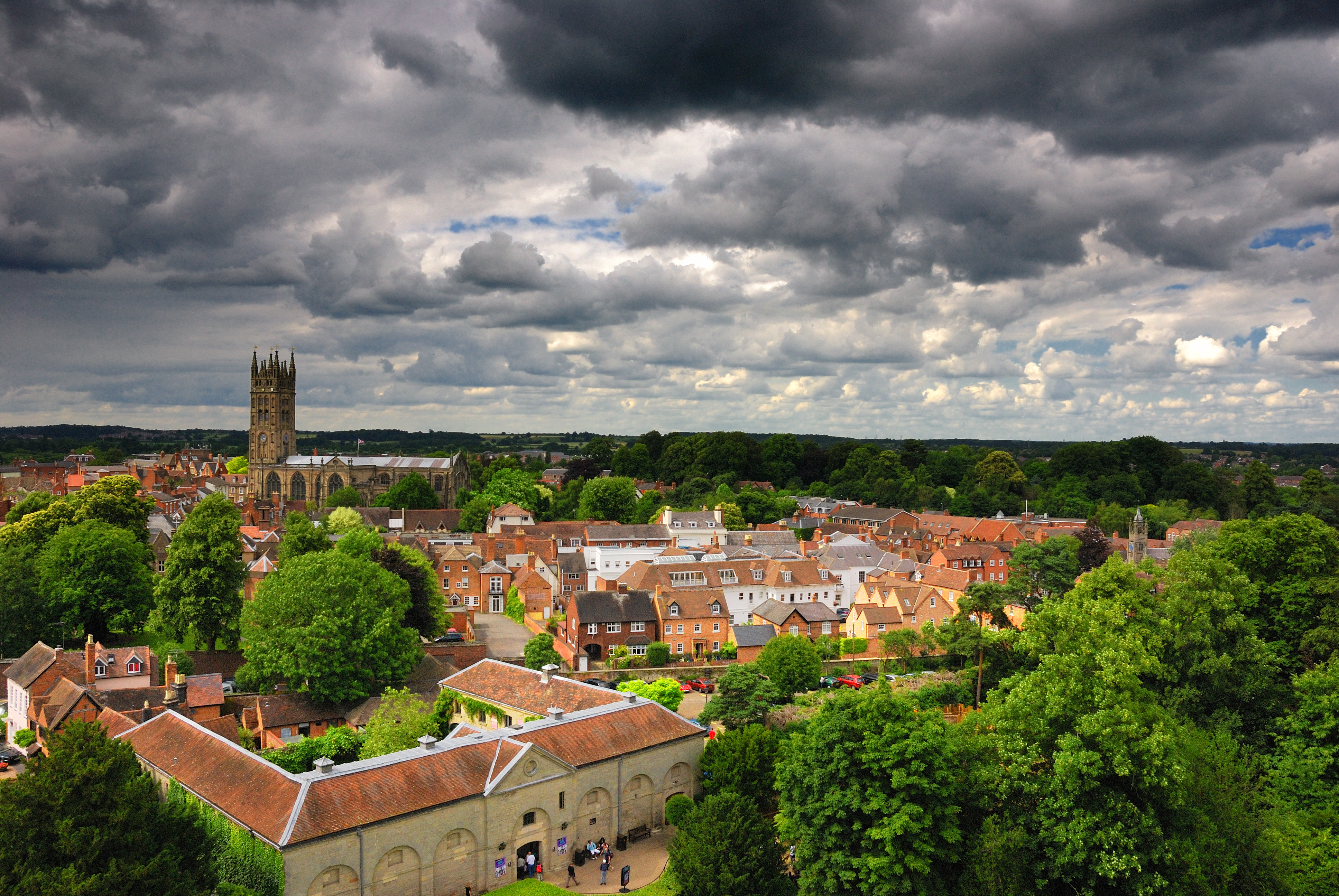 Warwick overview from the castle